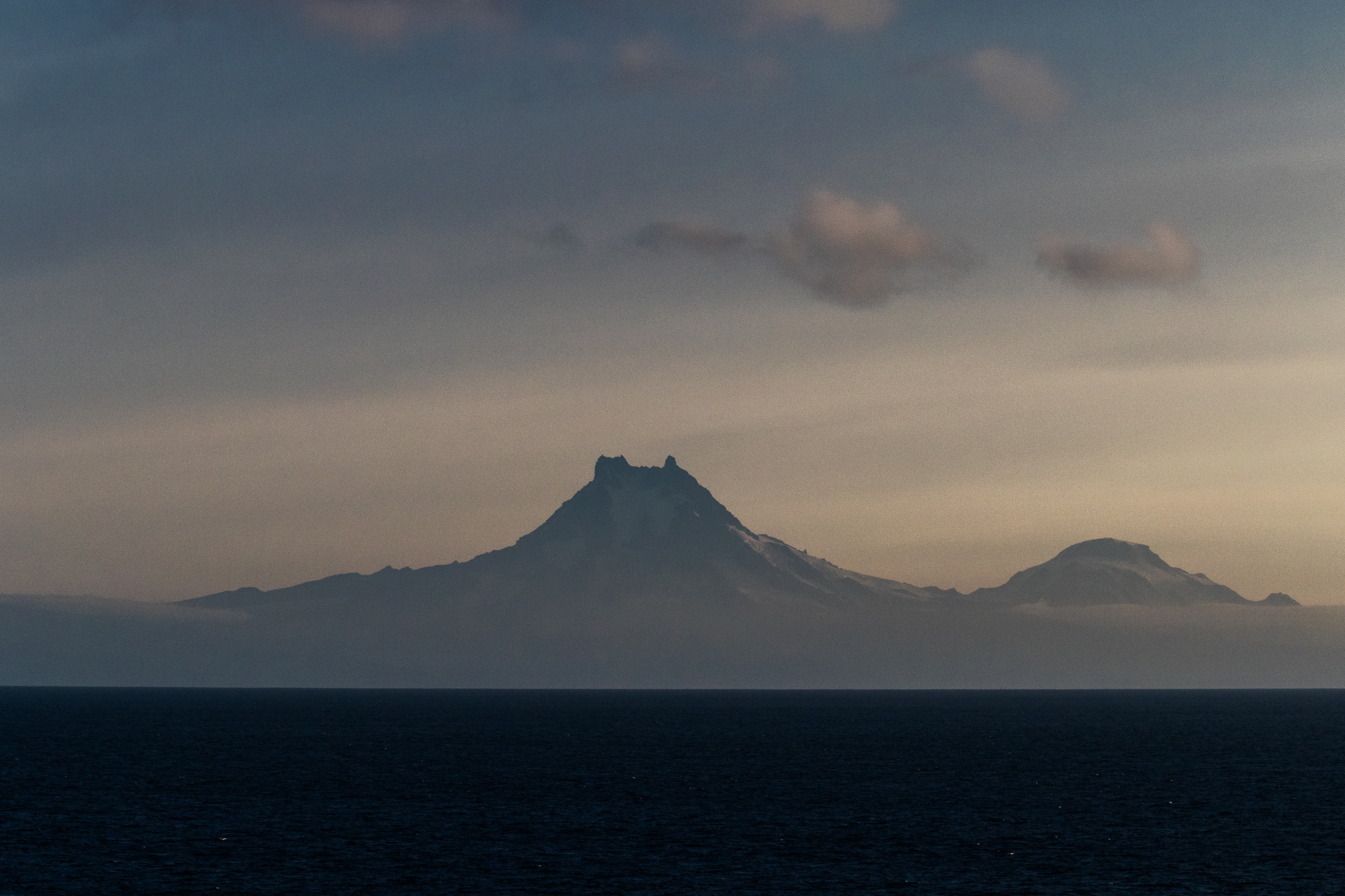 Isanotski (8104ft, 2470m) and Roundtop (6128ft, 1871m) volcanoes as seen from the Unimak Pass in morning light.